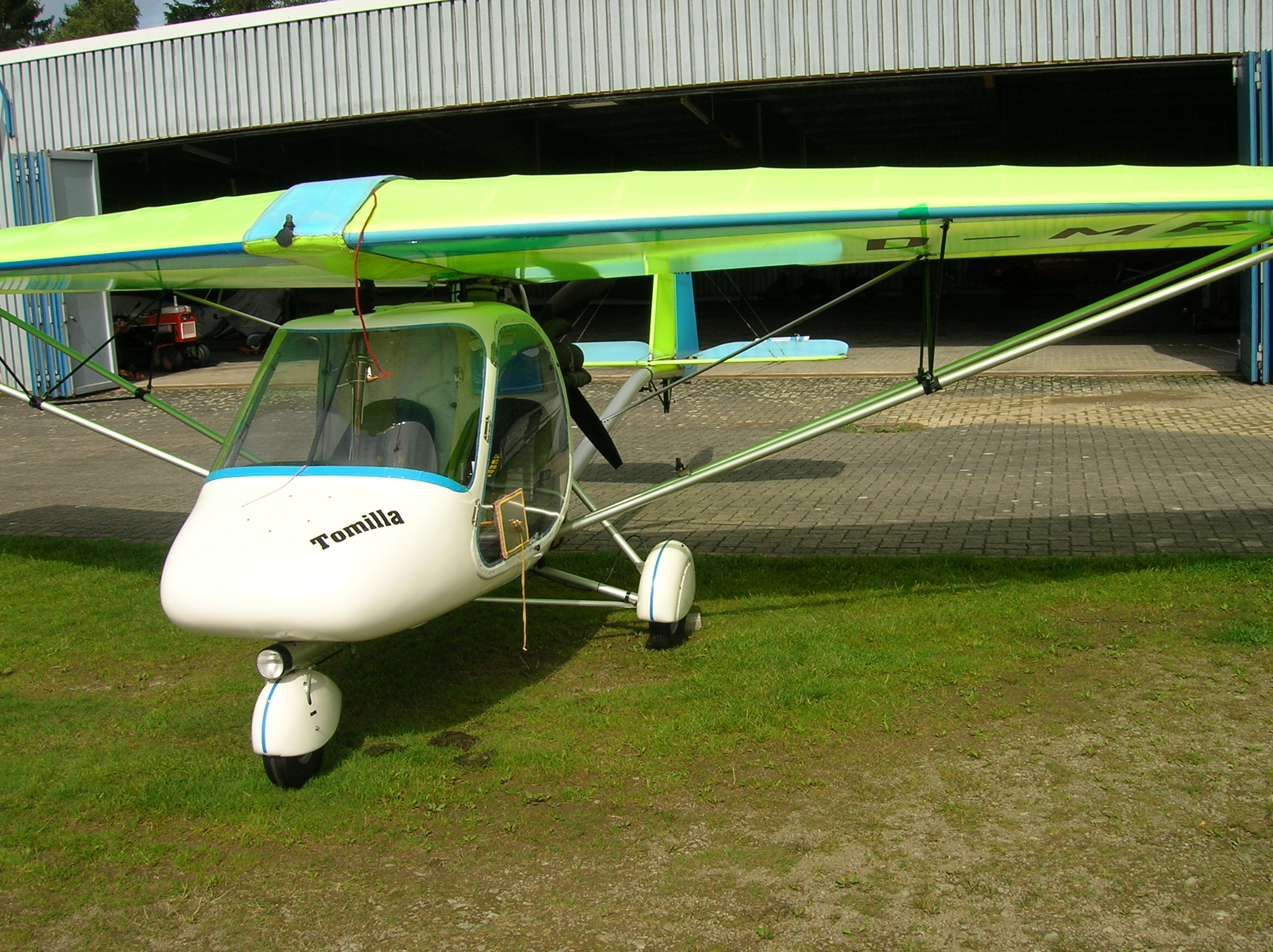 A Flylab Tucano (probably version V) during the „Bergfliegen 2011“ at Schmallenberg airfield